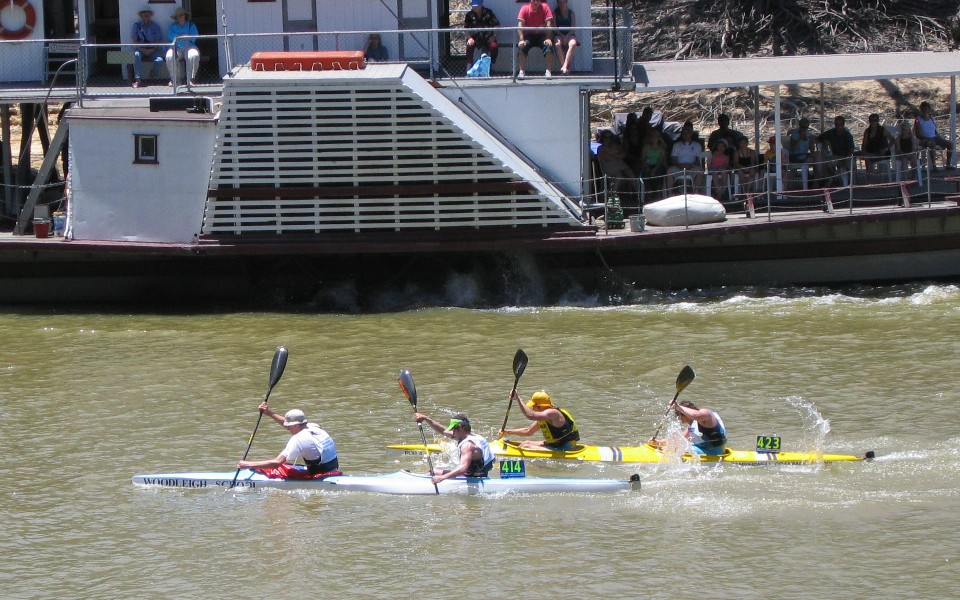 Two school relay teams sprint to the finish of day 3 of the 2005 Red Cross Murray Marathon in Echuca. PS Pevensey is in the background.